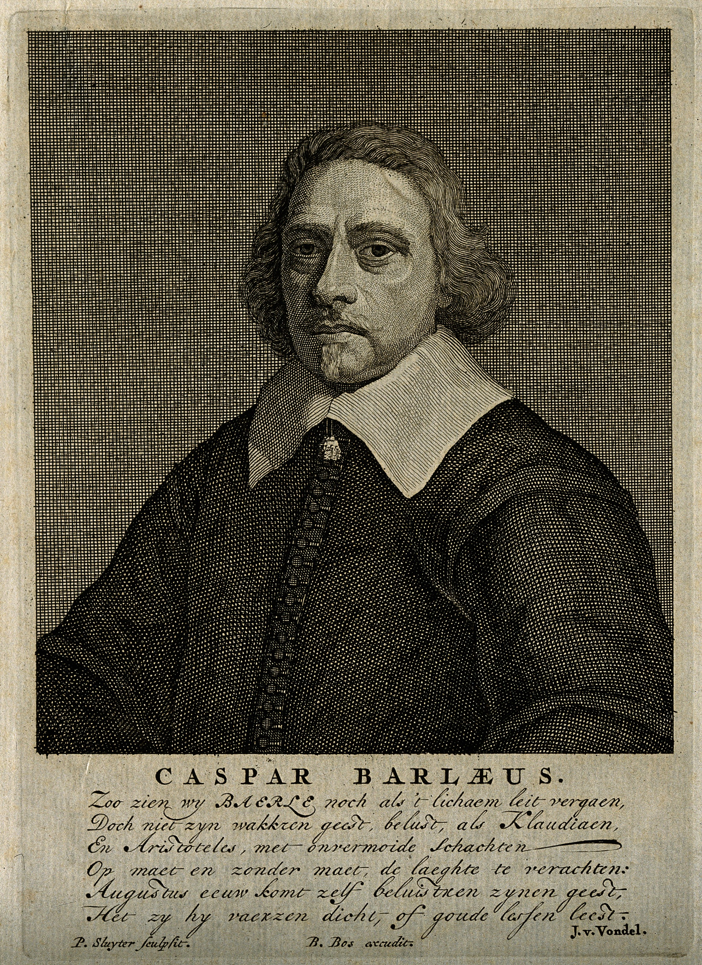 Caspar van Baerle [Barlæus]. Line engraving by P. Sluyter. Iconographic Collections Keywords: portrait prints; engravings; Caspar Barlaeus; barlaeus, caspar , 1584-1648